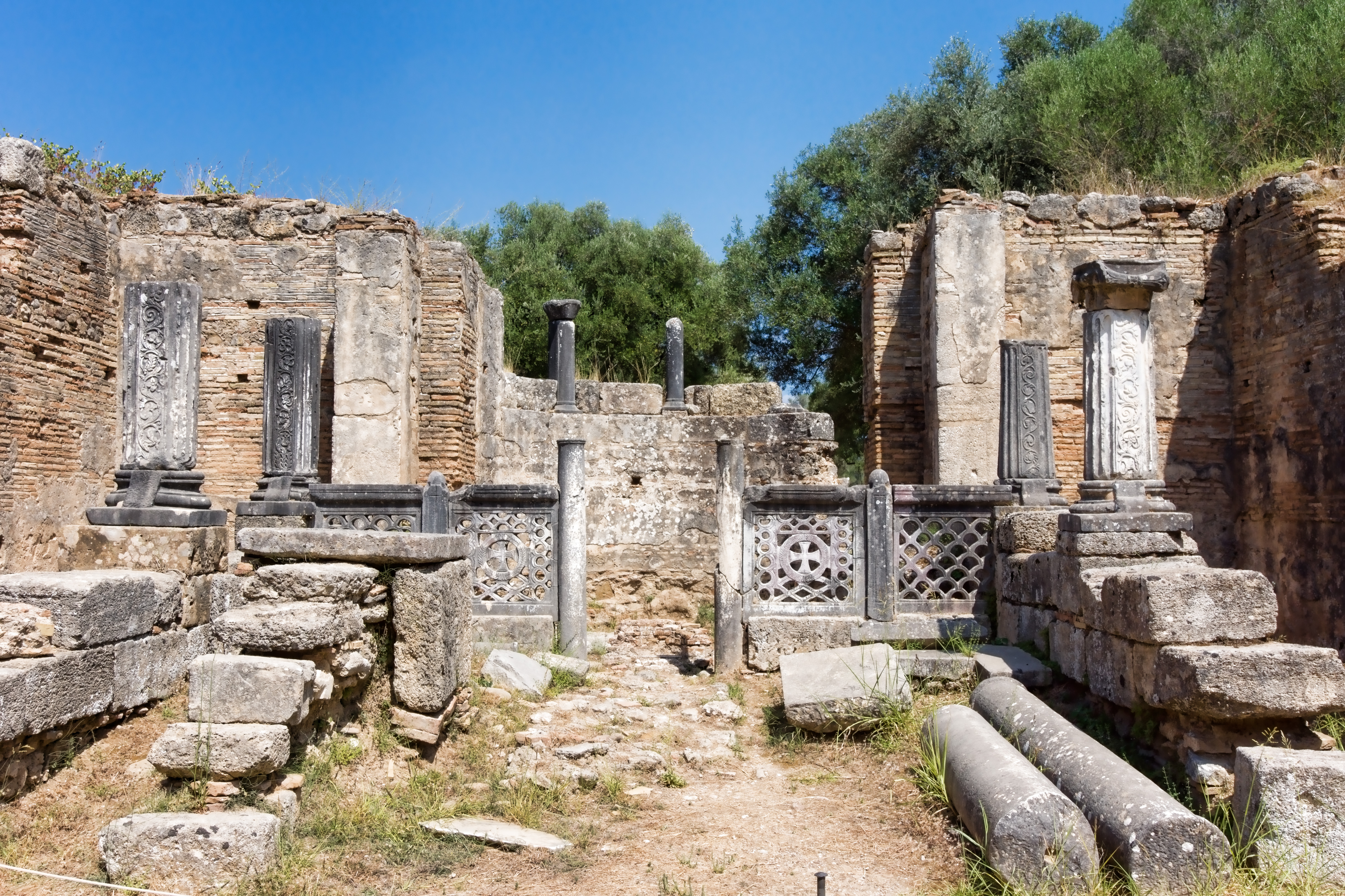 The supposed workship of Phidias at Olympia, where it is said he fashioned the cryselephantine statue of Zeus, one of the Seven Wonders of the World.